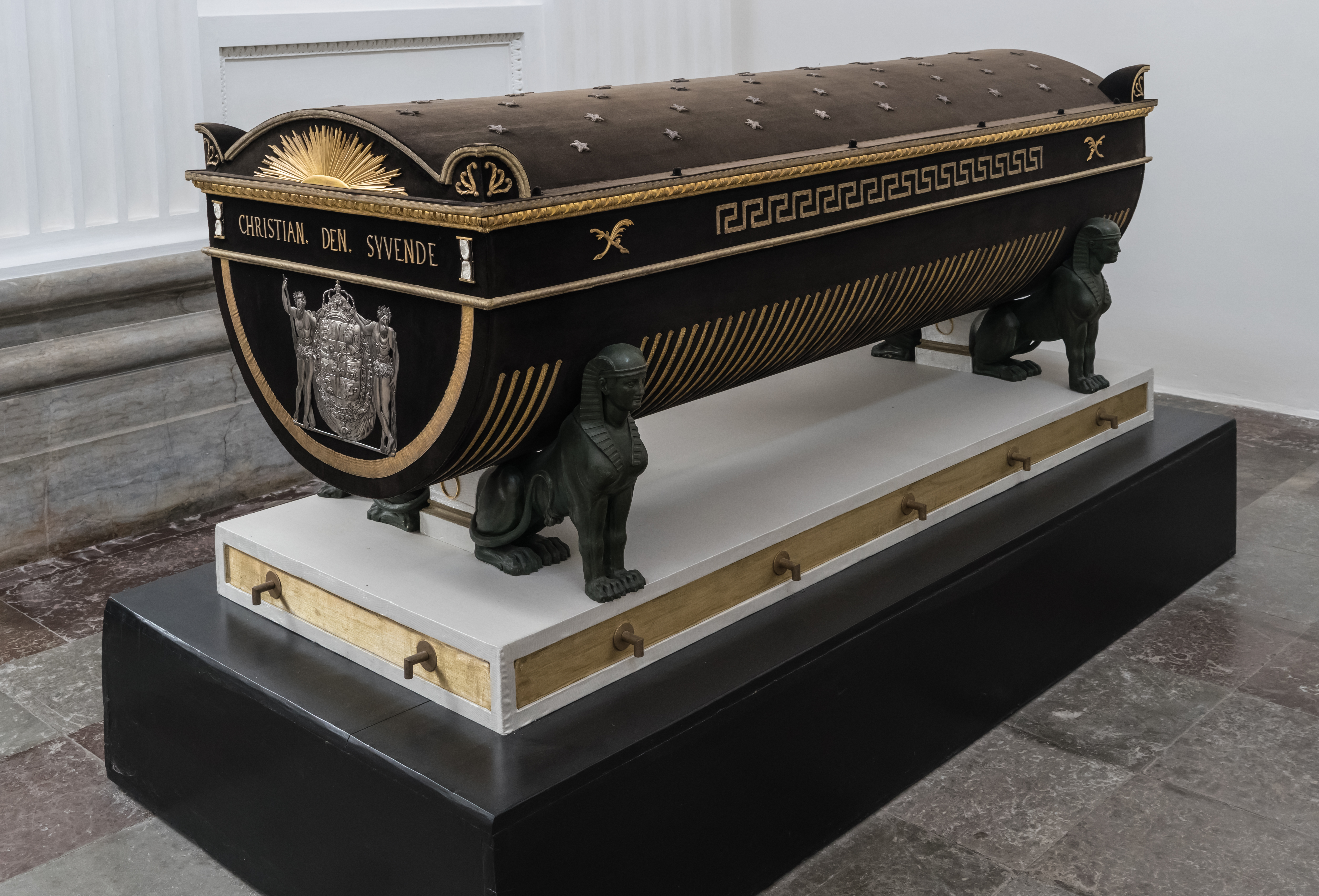 Sarcophagus of king Christian VII of Denmark and Norway, Roskilde cathedral, Denmark. He is the insane king of the danish movie A Royal Affair.